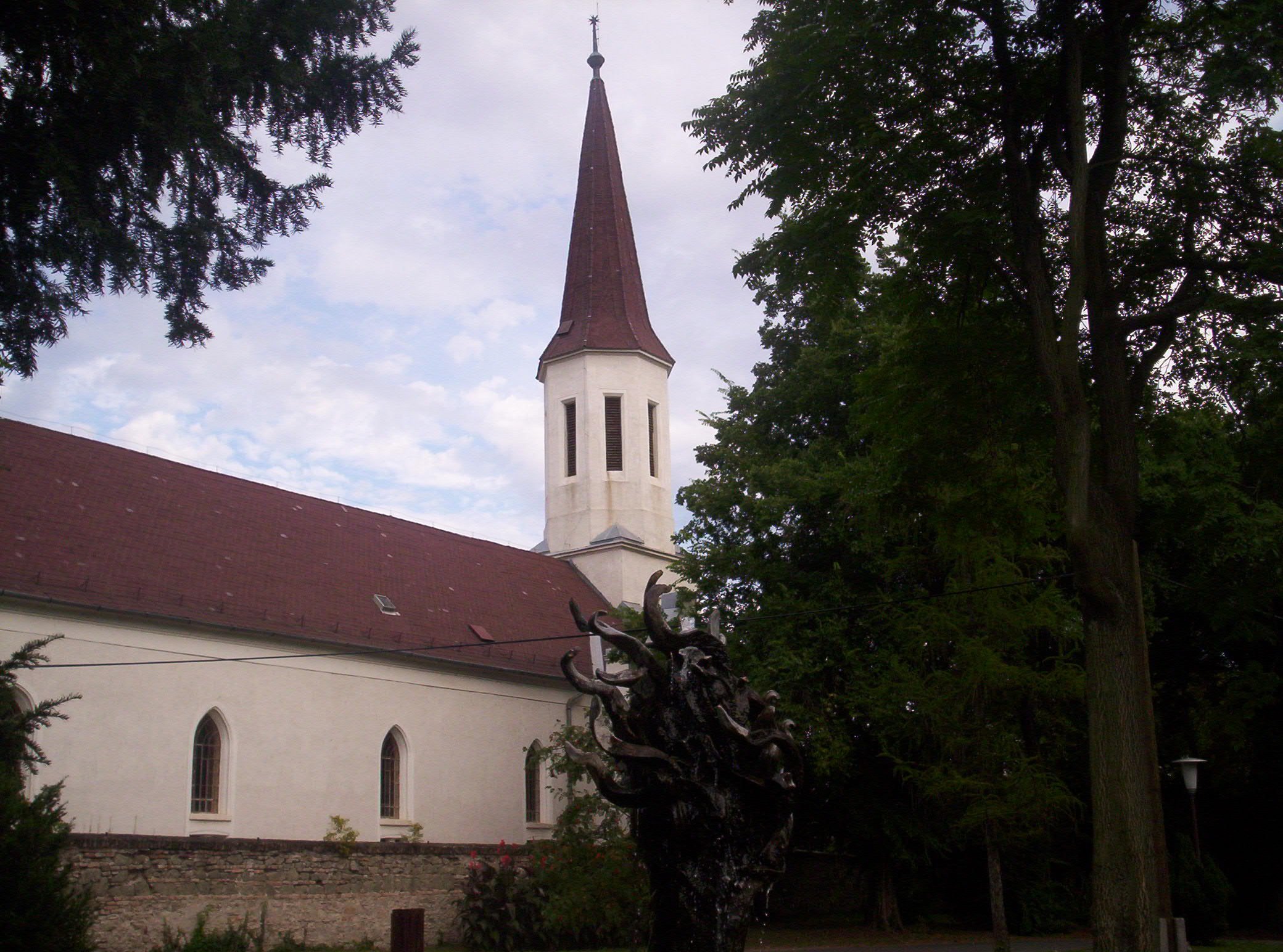 Calvinist temple in Fót